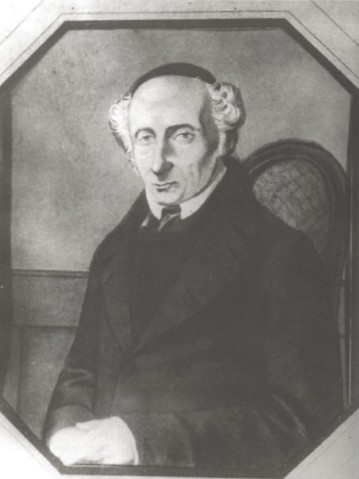 contemporary portrait of Isaac Offenbach (1779/1781 – 1850)